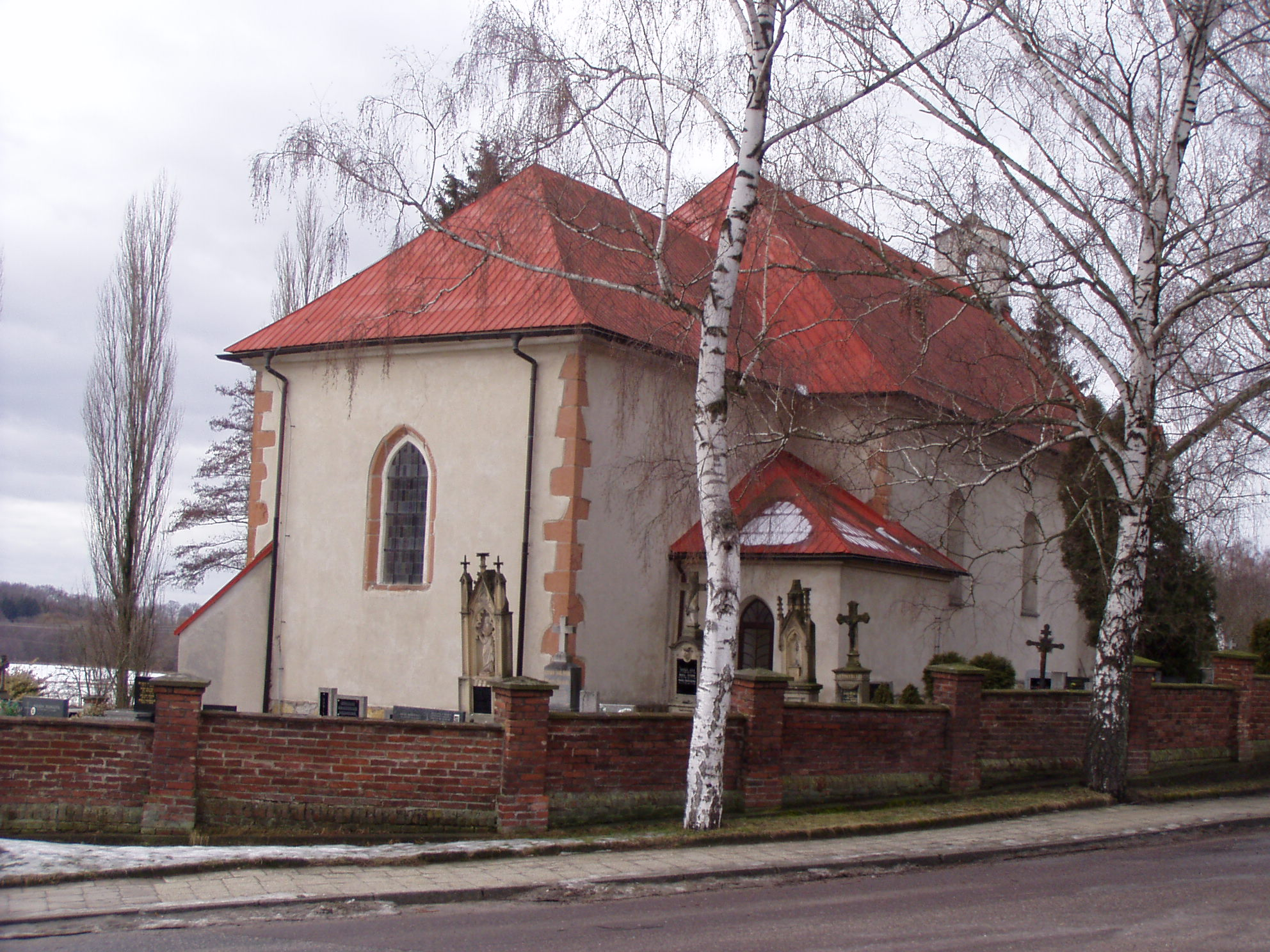 Krčín - Church of the Holy Spirit